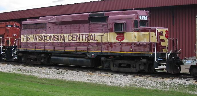 Wisconsin Central number 715, a GP30 built in 1963 on display at the National Railroad Museum in Green Bay Photo by Sean Lamb (User:Slambo), April, 2004.